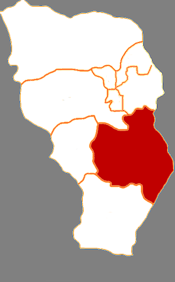 Locator map of oringer County in Hohhot City, Inner Mongolia, China